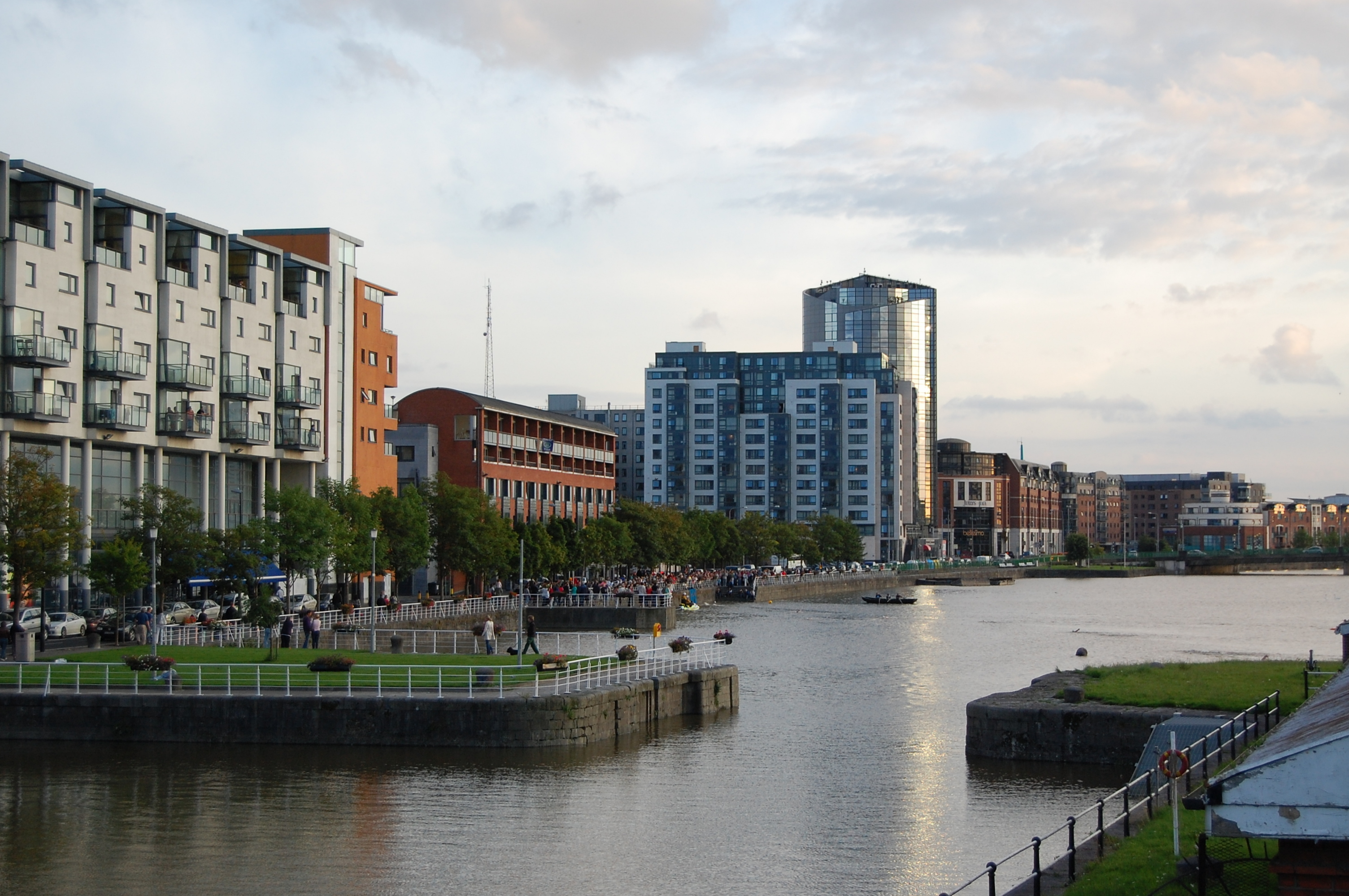 Limerick City's Riverpoint view